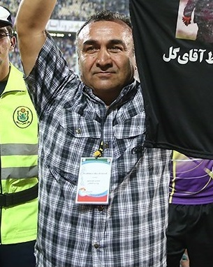 Nader Dastneshan